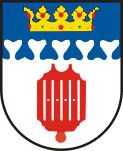 Coat of arms of Vilémov u Šluknova